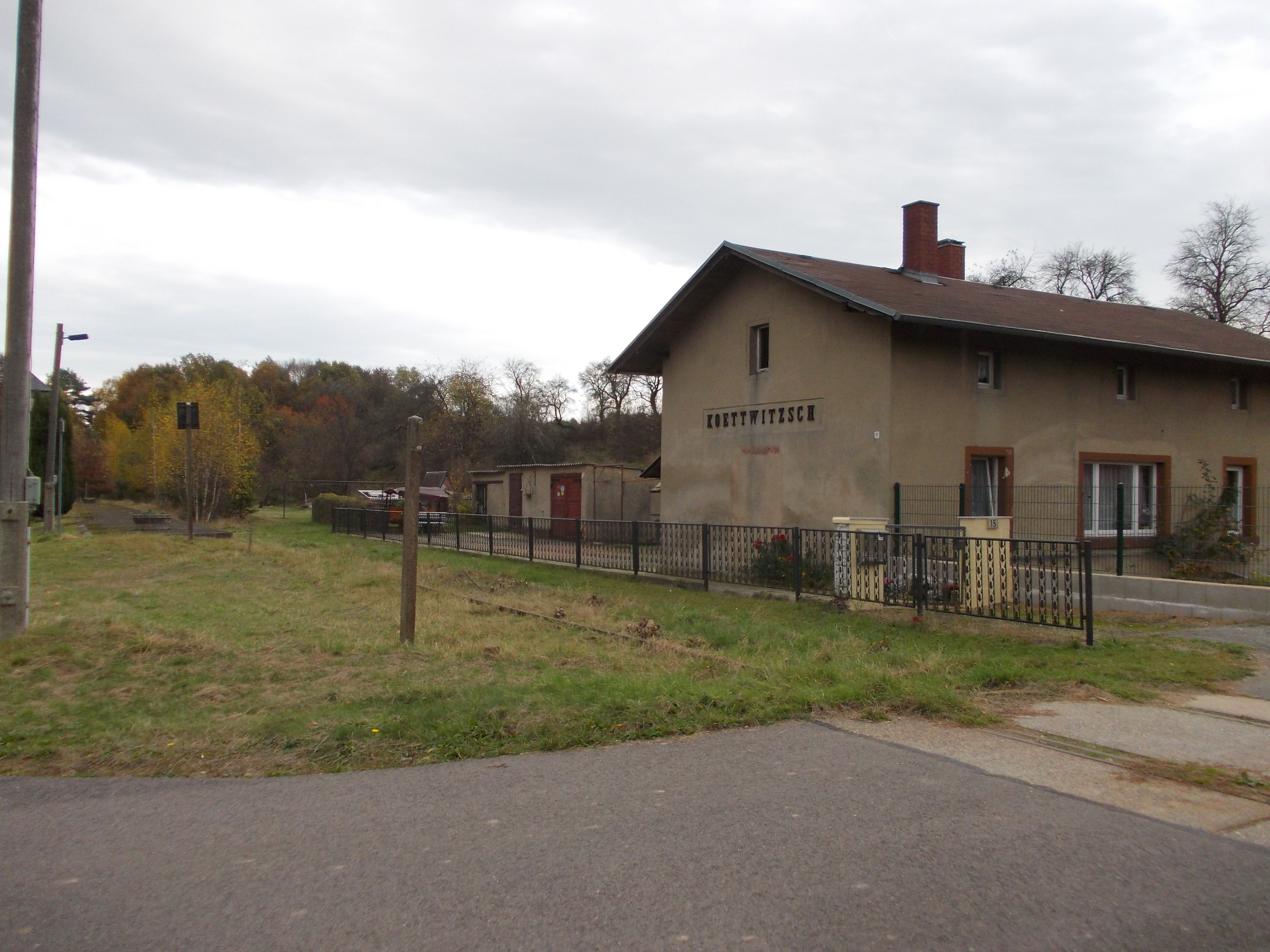 Köttwitzsch station at the former Rochlitz-Penig railway line (mittelsachsen district, Saxony)